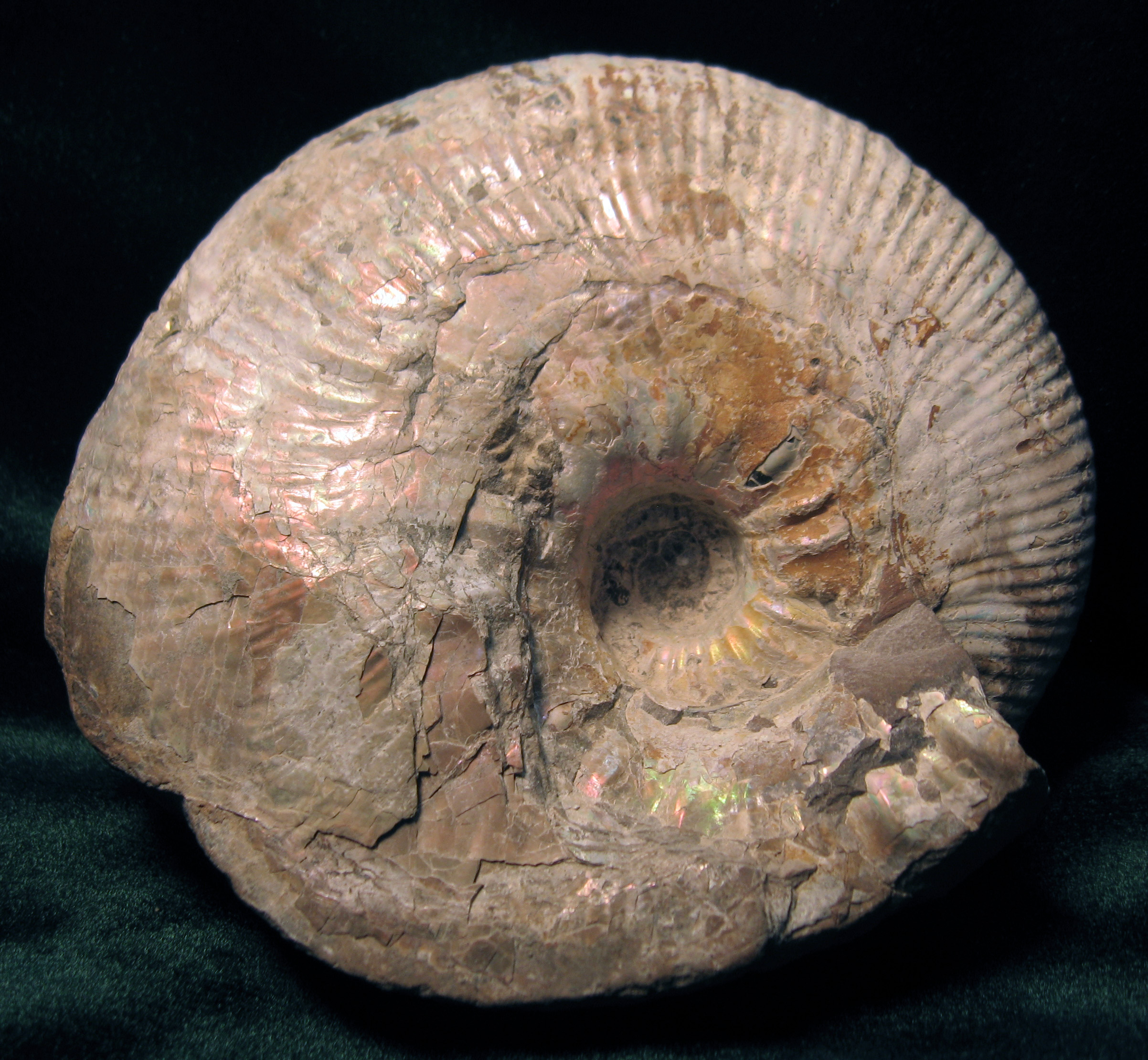 A ~11cm in diameter fossil Rhaeboceras halli, with shale matrix from the Upper Cretaceous Bearpaw Shale Formation, Fergus County, Montana, USA. Stonerose Interpretive Center, Gary Eichhorn Ammonite Collection #SR EA 07-04-09.